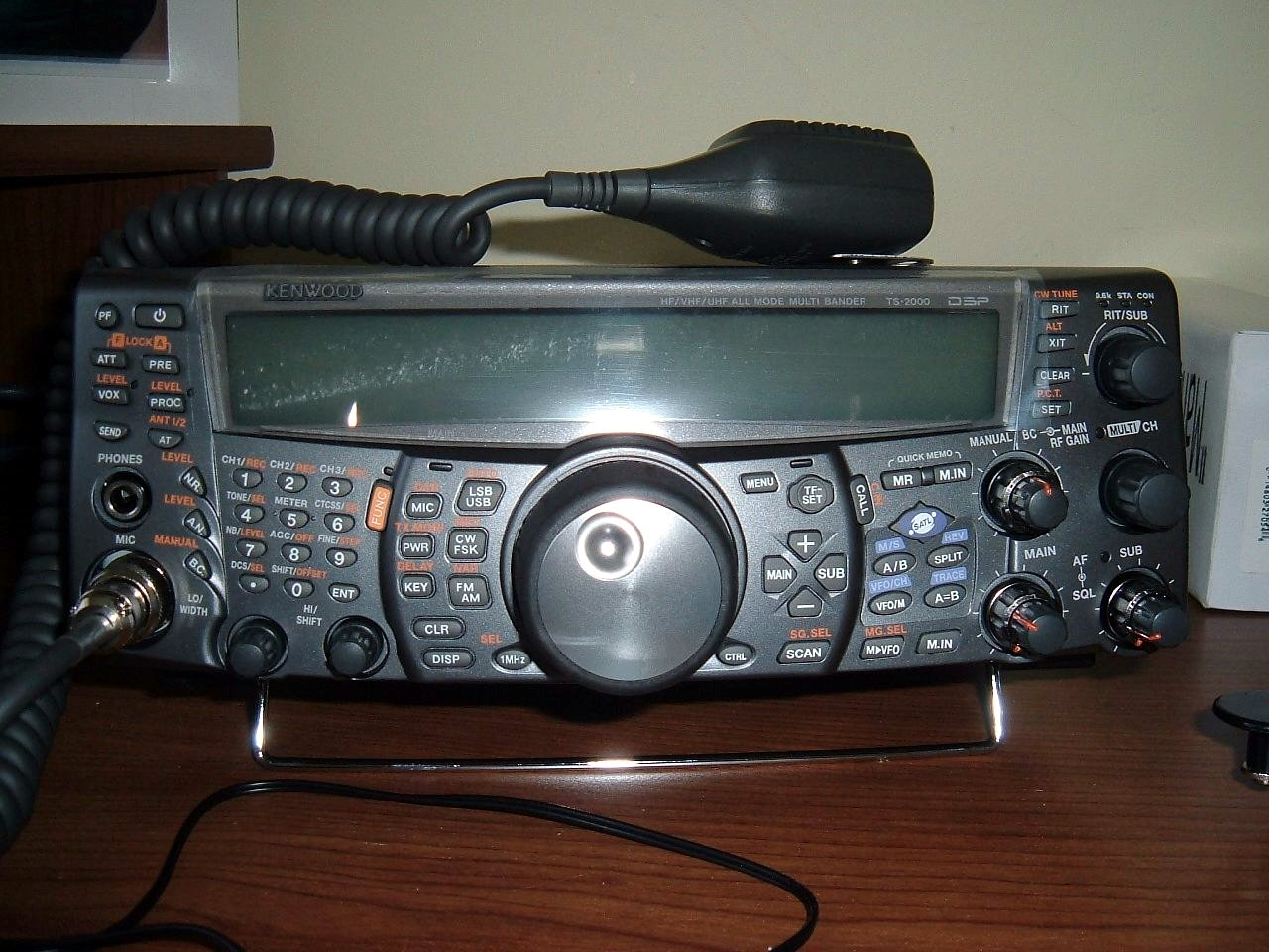 This is a picture that I took of my new Kenwood TS-2000 transceiver.